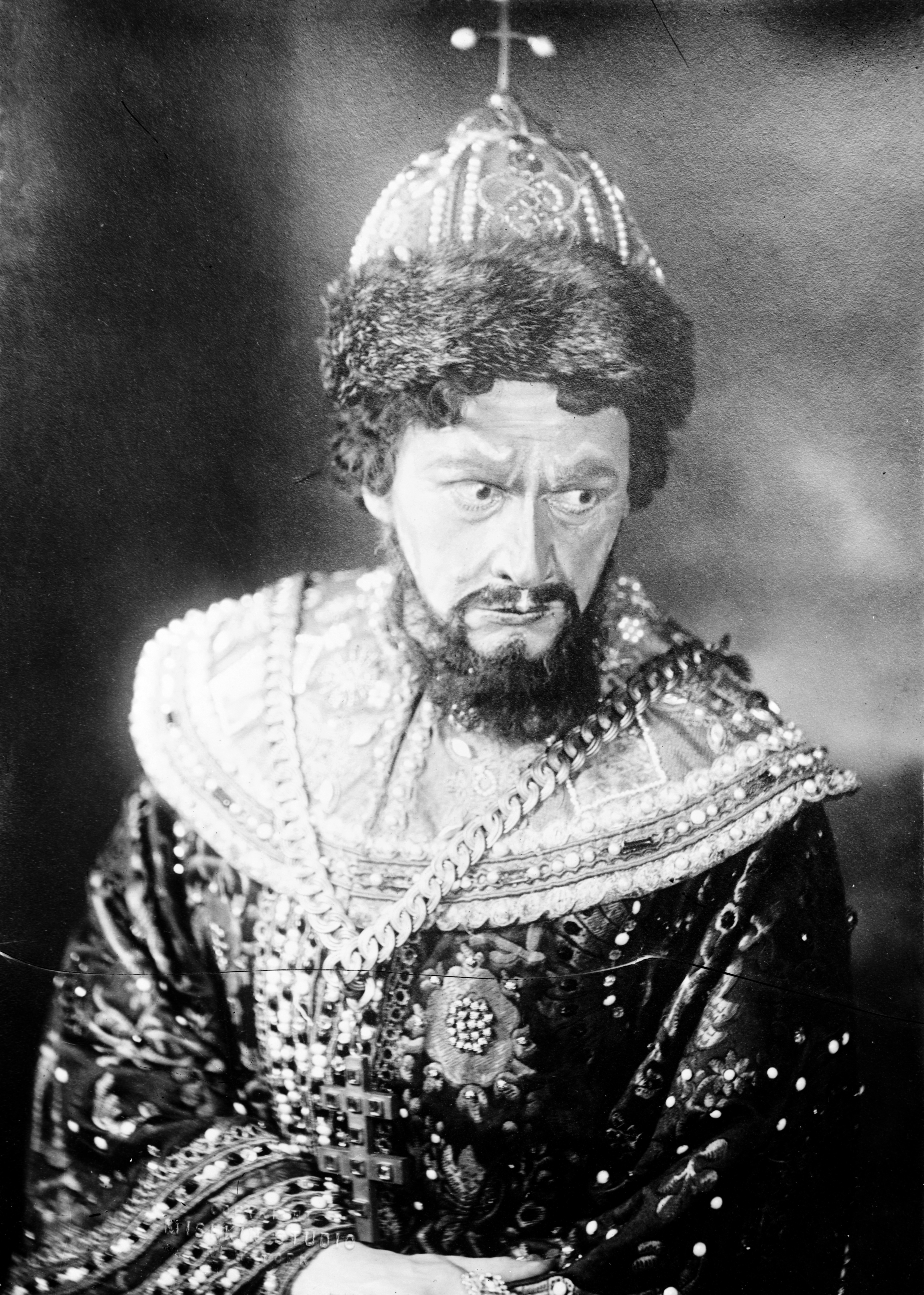 Polish opera singer Adamo Didur (1874-1946) in Mussorgsky's Boris Gudunov.